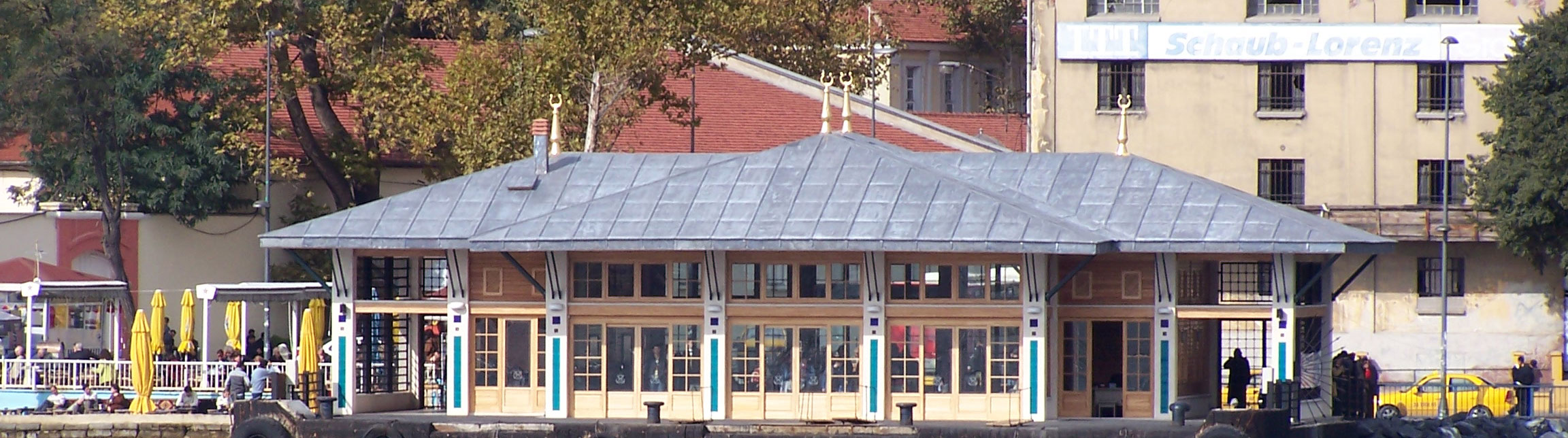 Barbaros Hayrettin Paşa Pier, Beşiktaş.